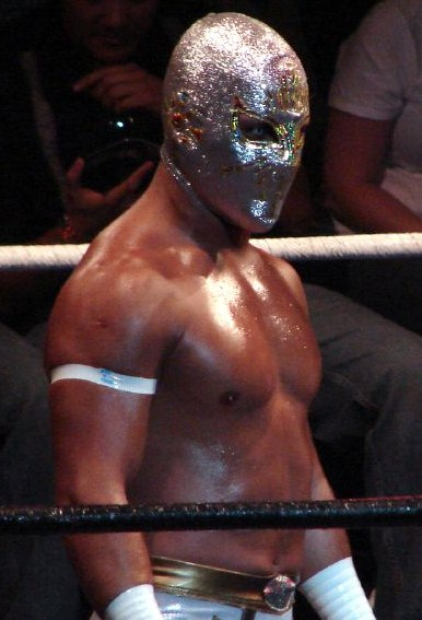 Místico in Lucha Va Voom in June 20, en:2006.